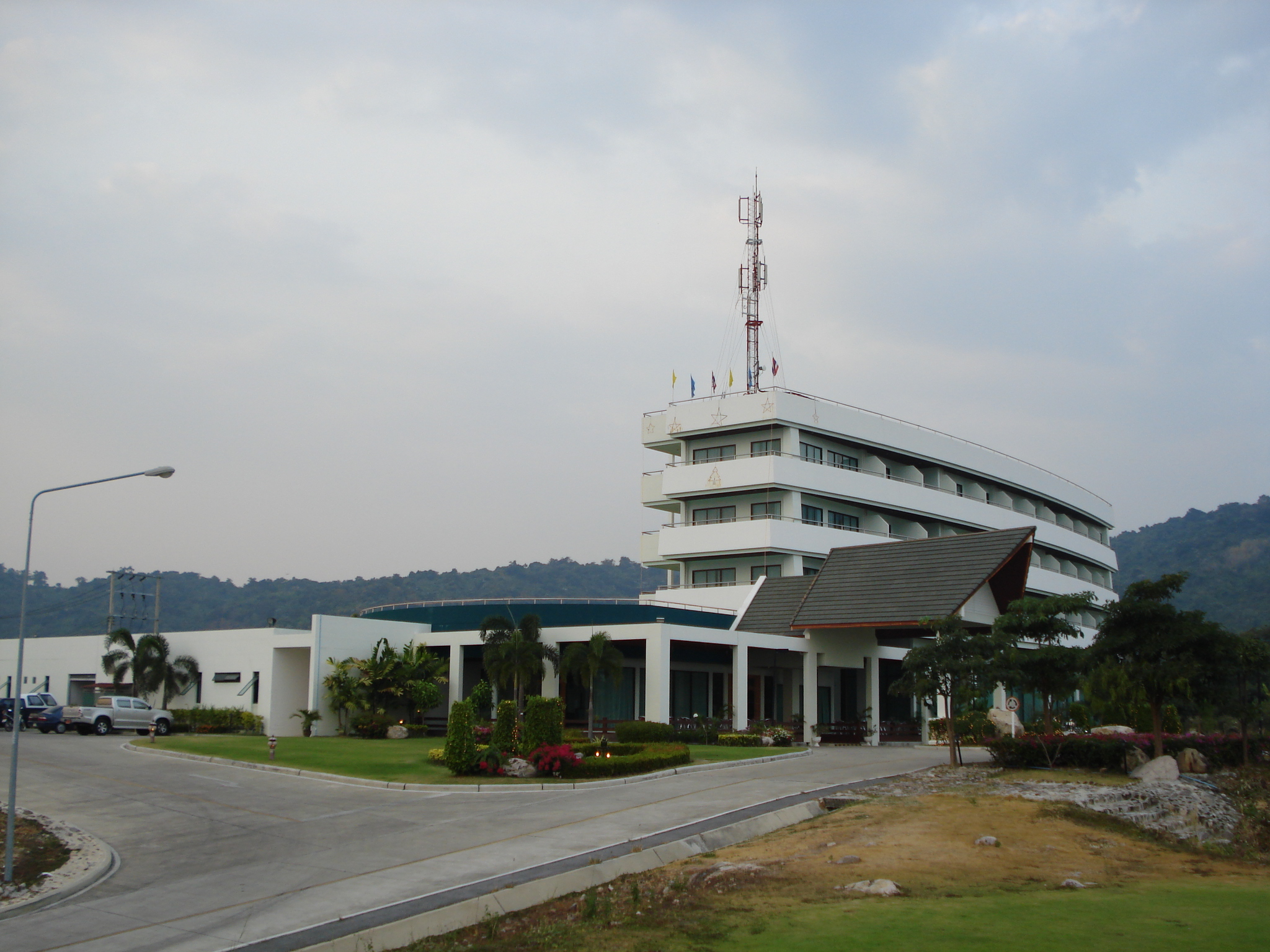 Armed Forces Academies Preparatory School, Thailand in Amphoe Ban Na, Nakhon Nayok Province, Thailand.